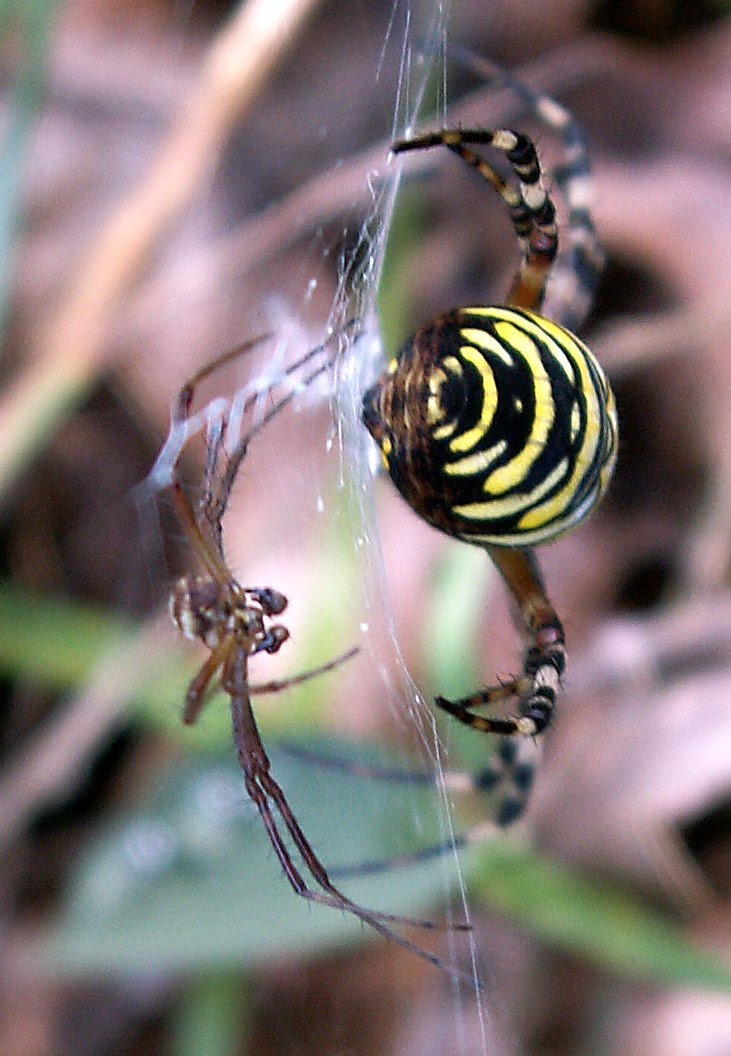 Argiope bruennichi male with female, before mating, Wageningen, the Netherlands